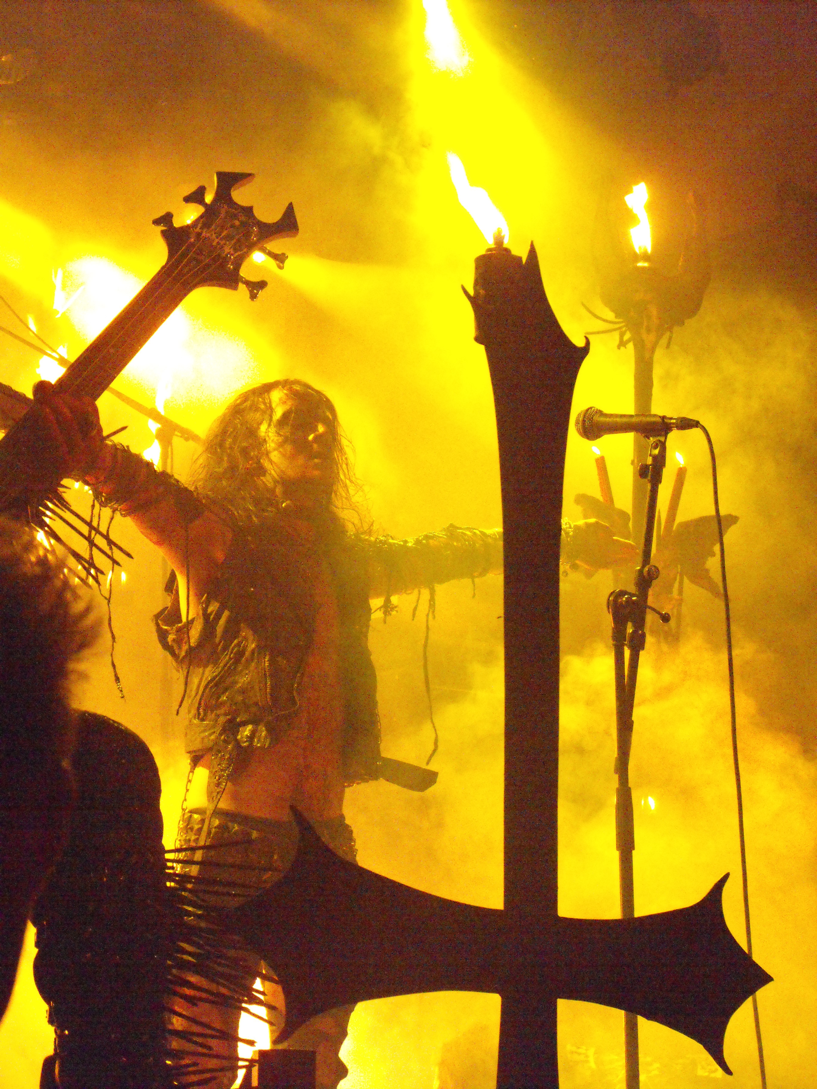 Watain performing live at Hole in the Sky festival in Bergen, Norway, August 2010